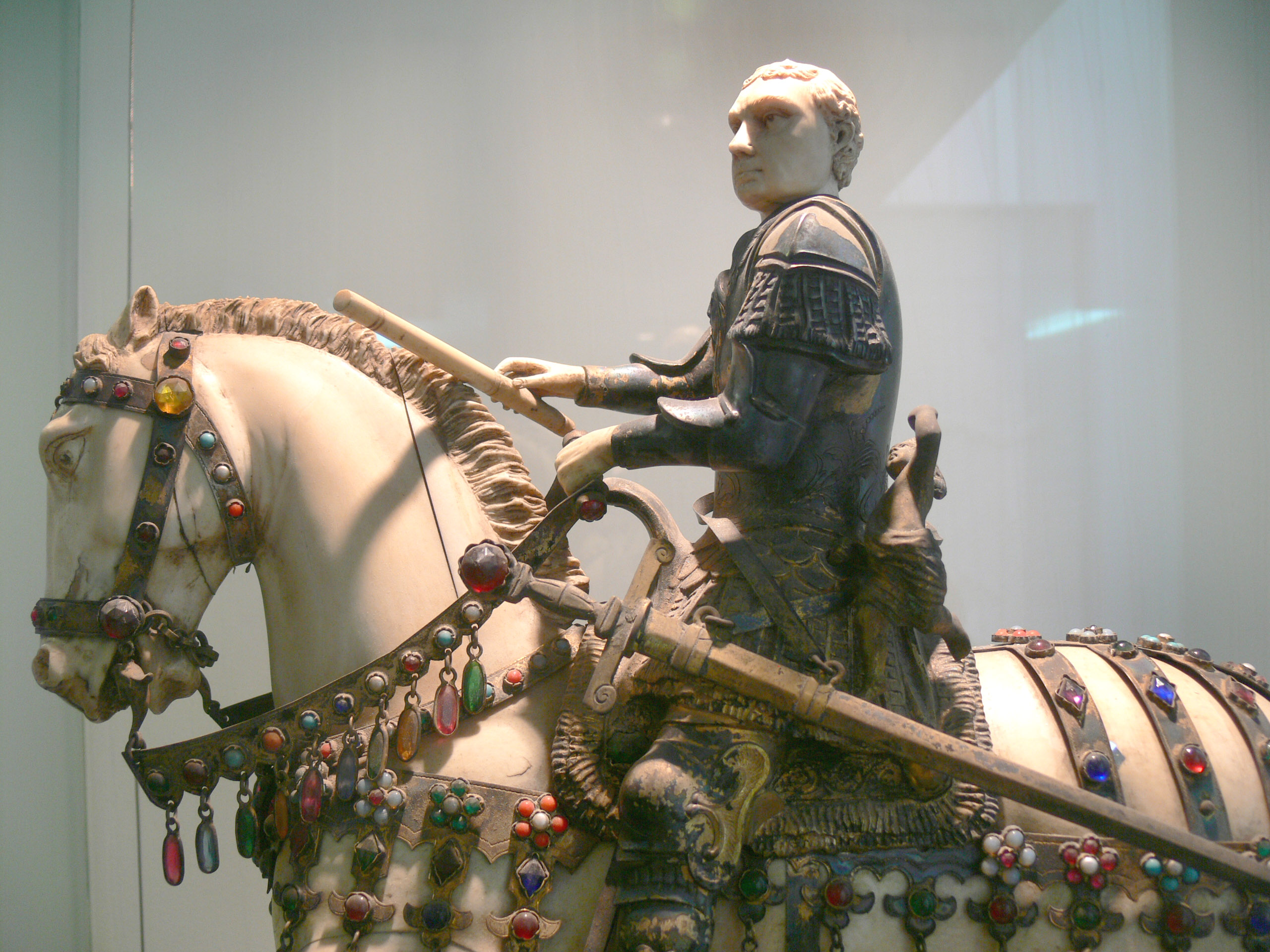 equestrian sculpture of Erasmo da Narni (= Gattamelata)